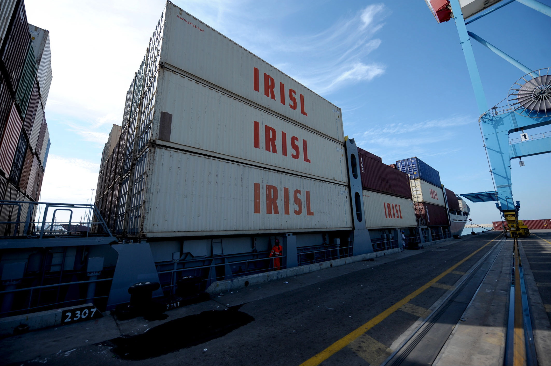 November 4, 2009. Israel Navy forces stopped the cargo ship "Francop" and found missiles, rockets and other weaponry. The ship was brought to the Ashdod port for inspection. Pictured here: Containers found on the Francop bearing the name IRISL, Islamic Republic of Iran Shipping Lines, one of the things connecting the weapons on board to Iran.